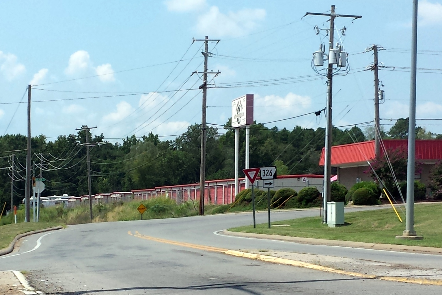 Highway 326 in Russellville, AR. Looking west from Highway 7